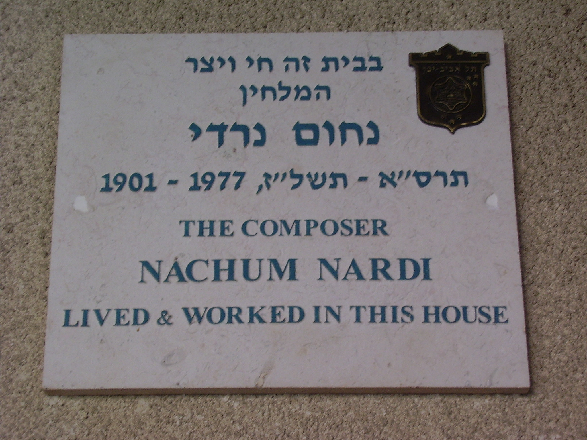 memorial plate in nahum nardi residence in tel aviv